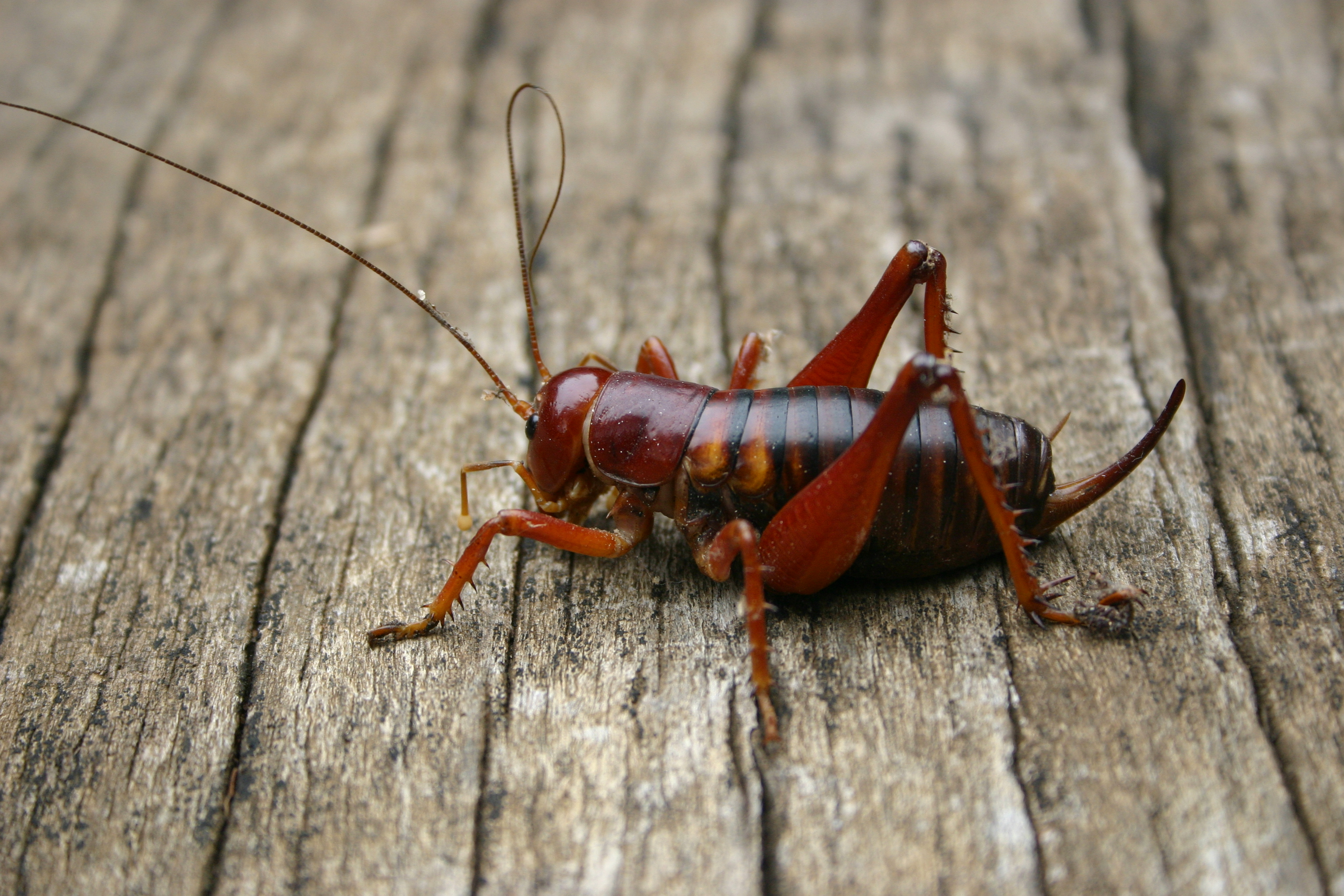 female Libanasidus vittatus, Parktown Prawn, at Chucklenook, Honeydew, Johannesburg